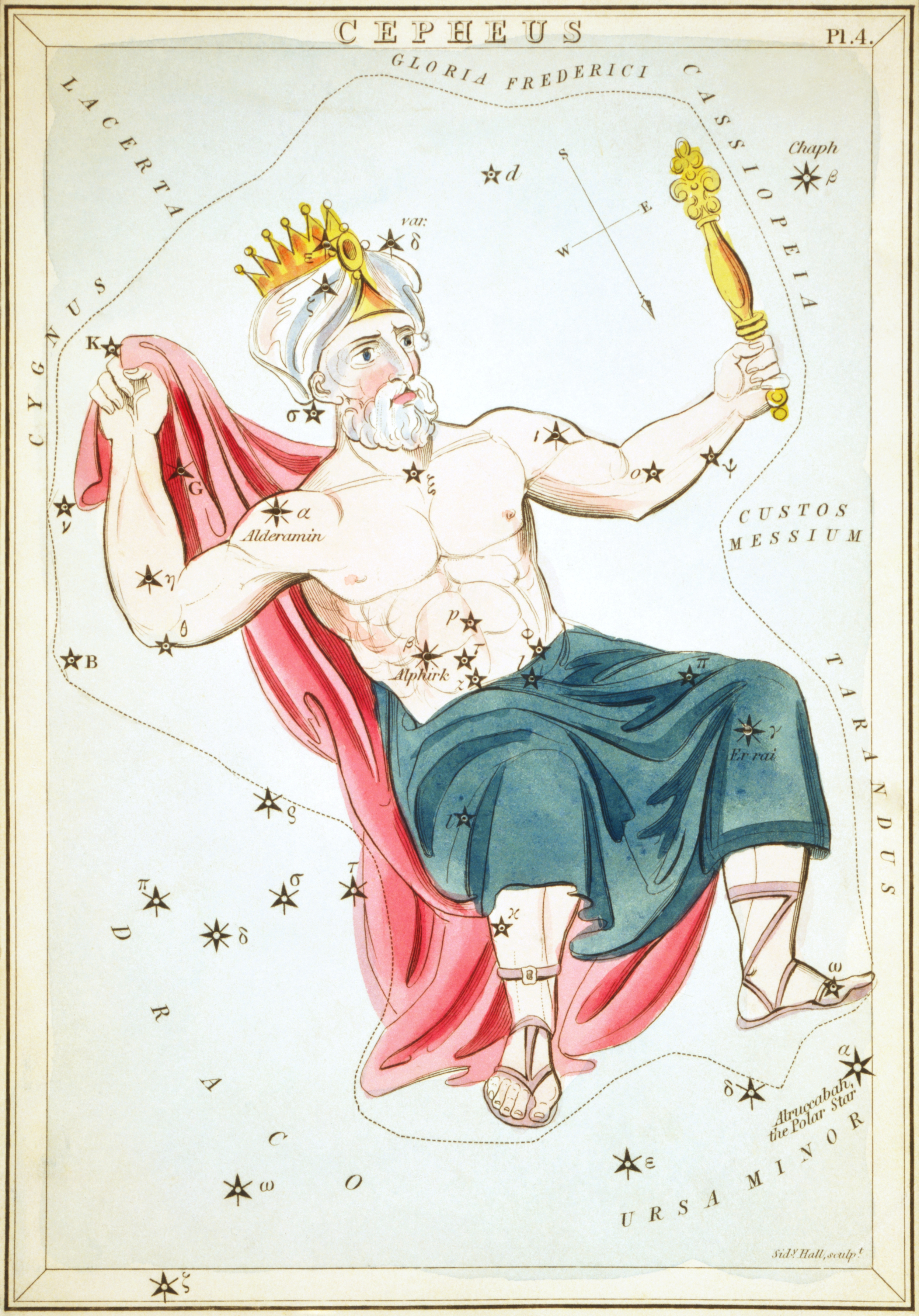 "Cepheus", plate 4 in Urania's Mirror, a set of celestial cards accompanied by A familiar treatise on astronomy ... by Jehoshaphat Aspin. London. Astronomical chart, 1 print on layered paper board : etching, hand-colored.